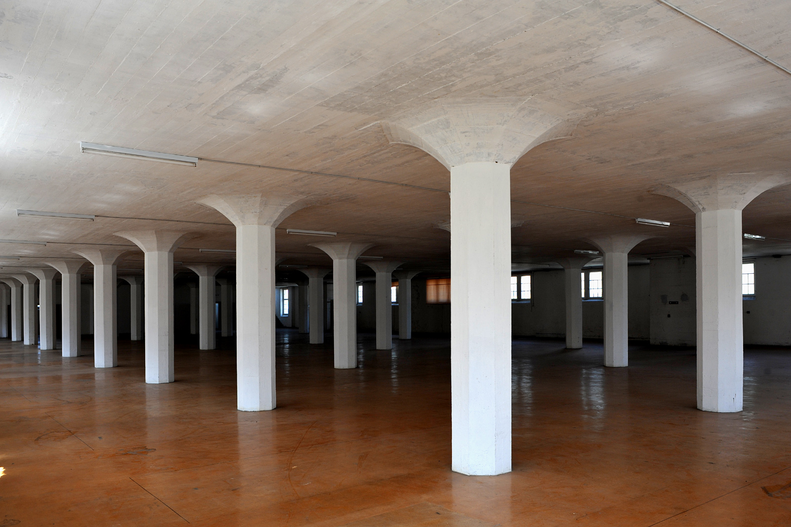 «Sackmagazin» (warehouse) of the «Eidgenössisches Getreidelager» (Grain storage of the Swiss Confederation) in Altdorf by Robert Maillart, built 1912; Uri, Switzerland. Mushroom slab on the first floor.